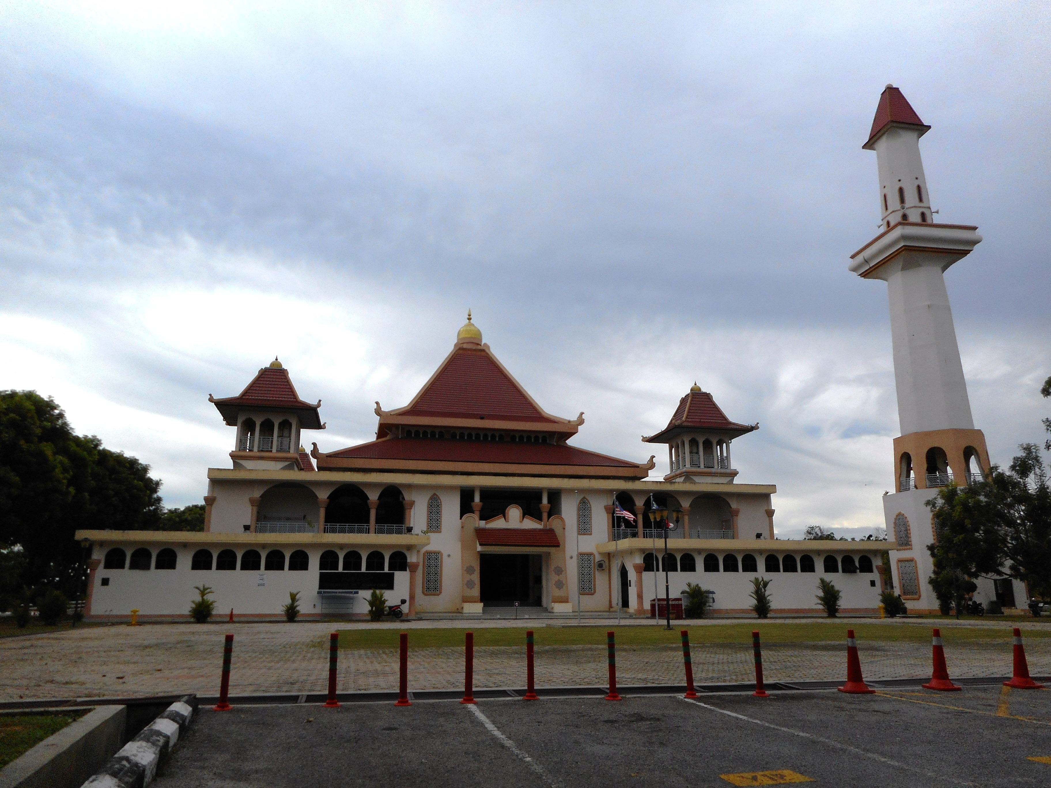 Al-Ghaffar Mosque, Jasin, Melaka, Malaysia